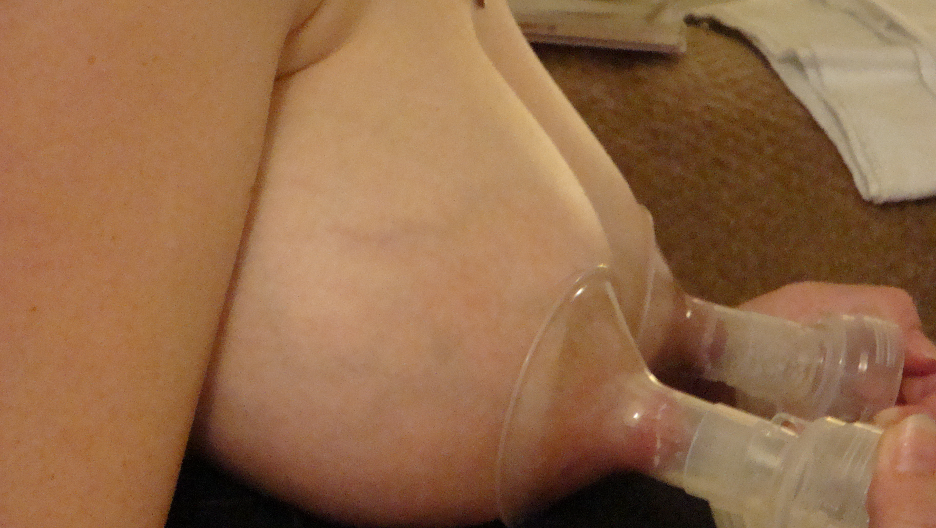 A breast-pump in action.